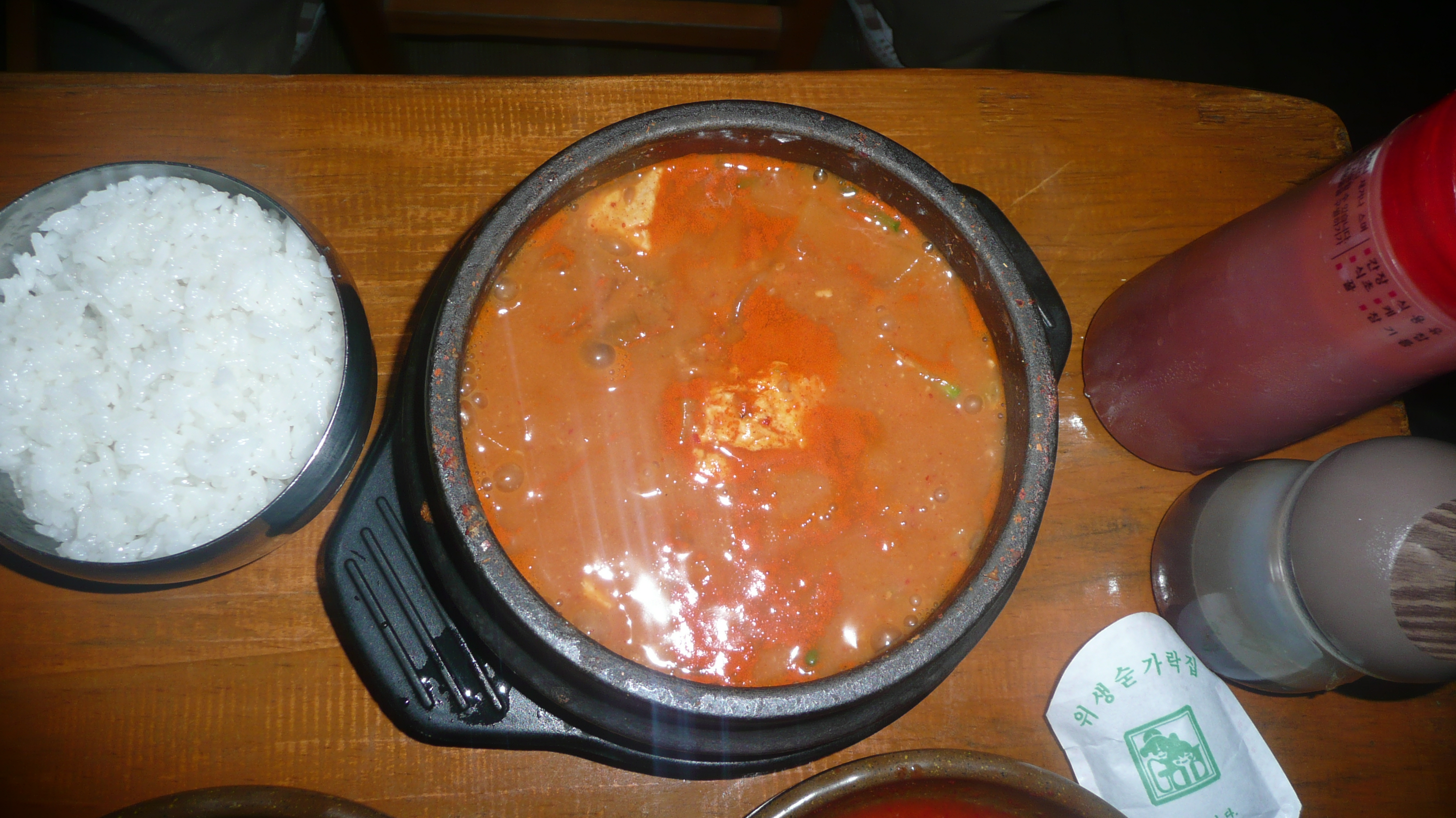 Thick soybean paste soup, in a restaurant in Seoul